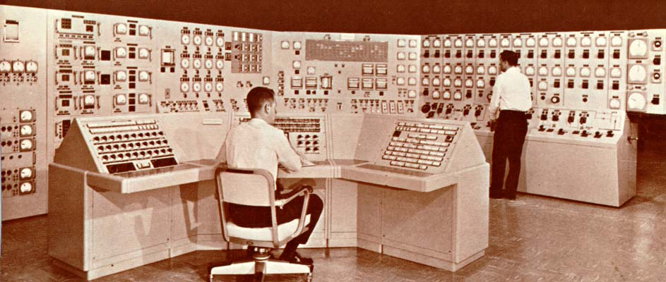 Photo of analog simulator, control room MH-1A